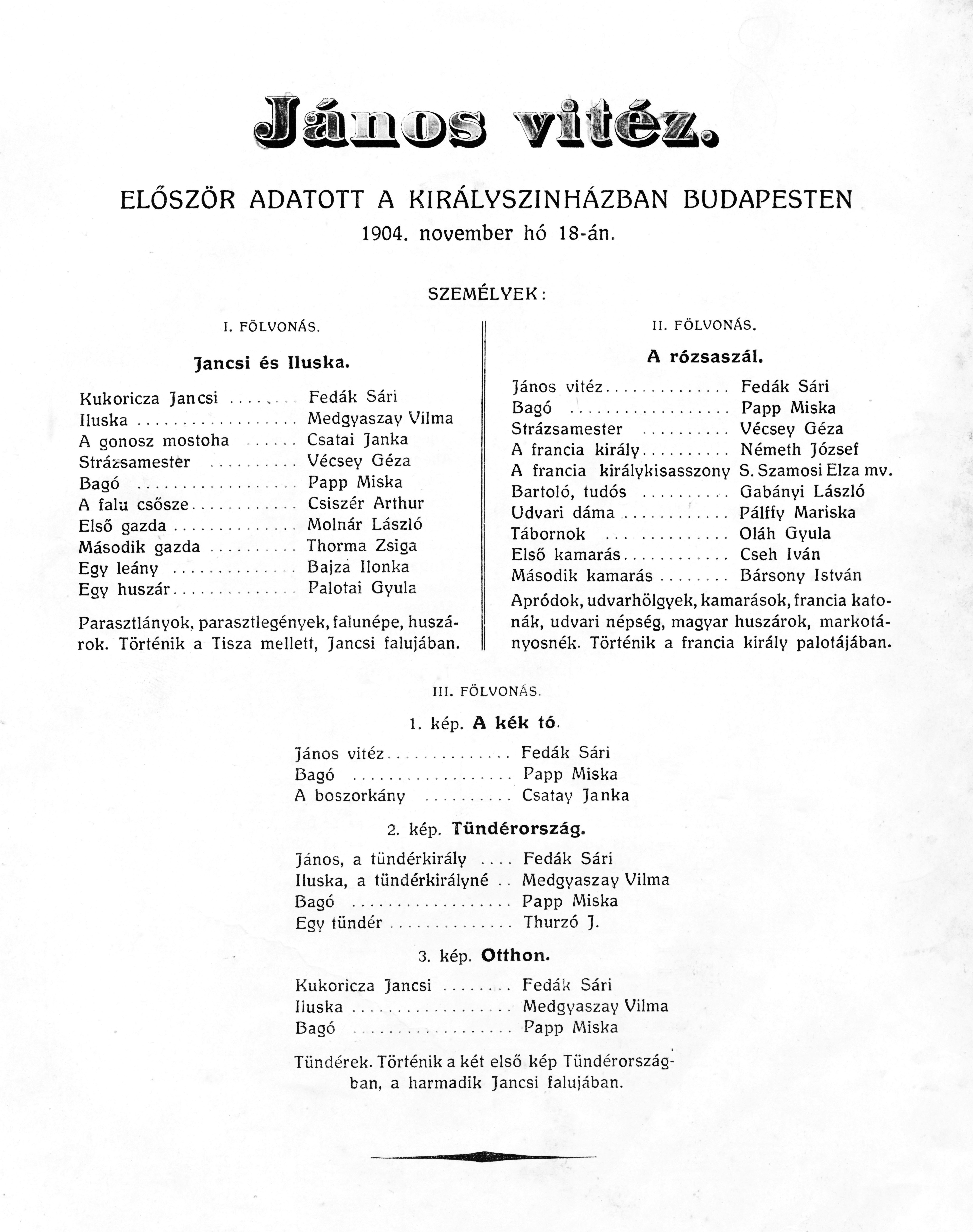 Pongarcz Kacsoh-János Vitéz operetta musicbook first edition 1904 - internal page - The premiere cast - Király Színház / King Theater Budapest - November 18, 1904.